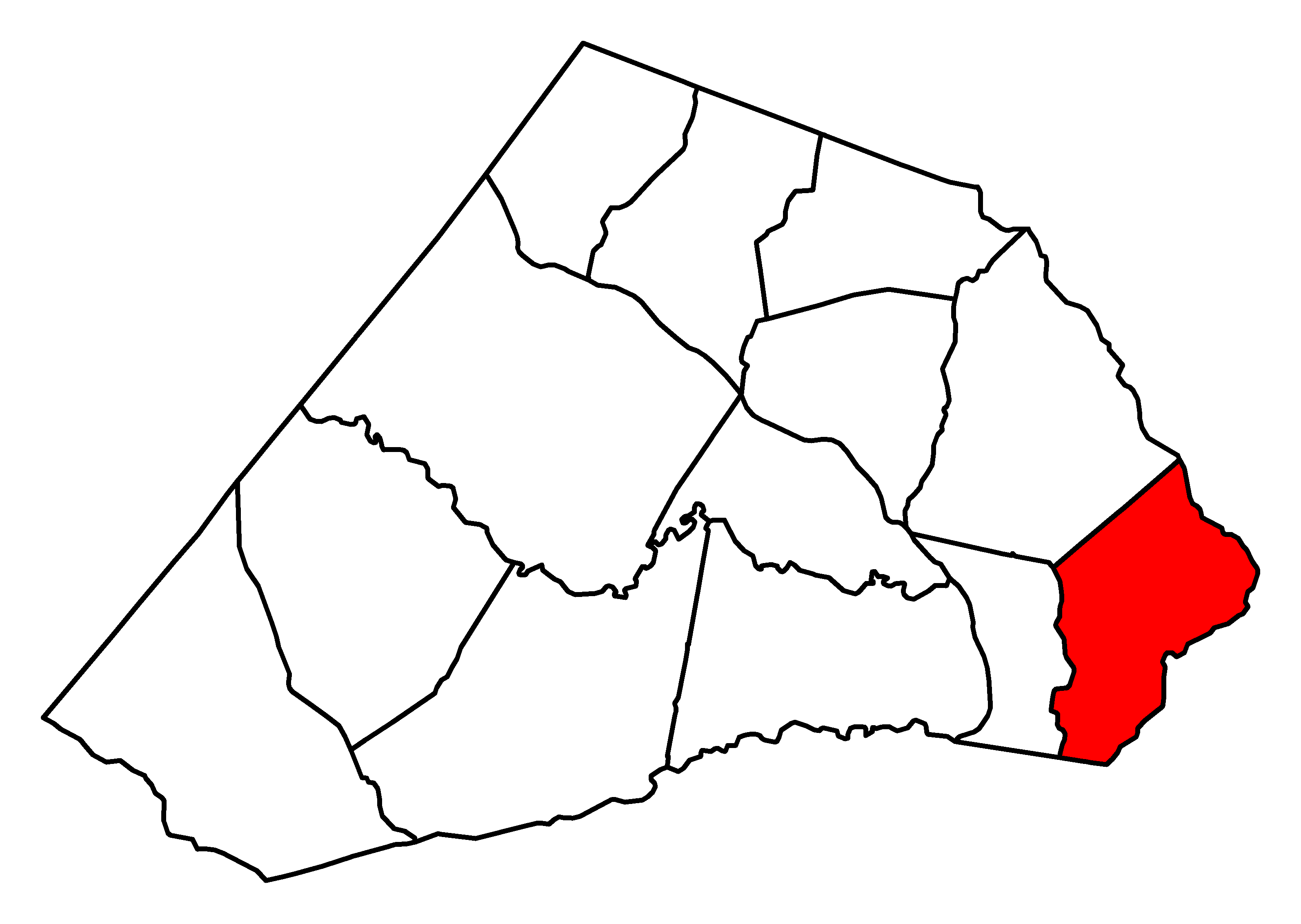 Map of Averasboro Township, Harnett County, North Carolina